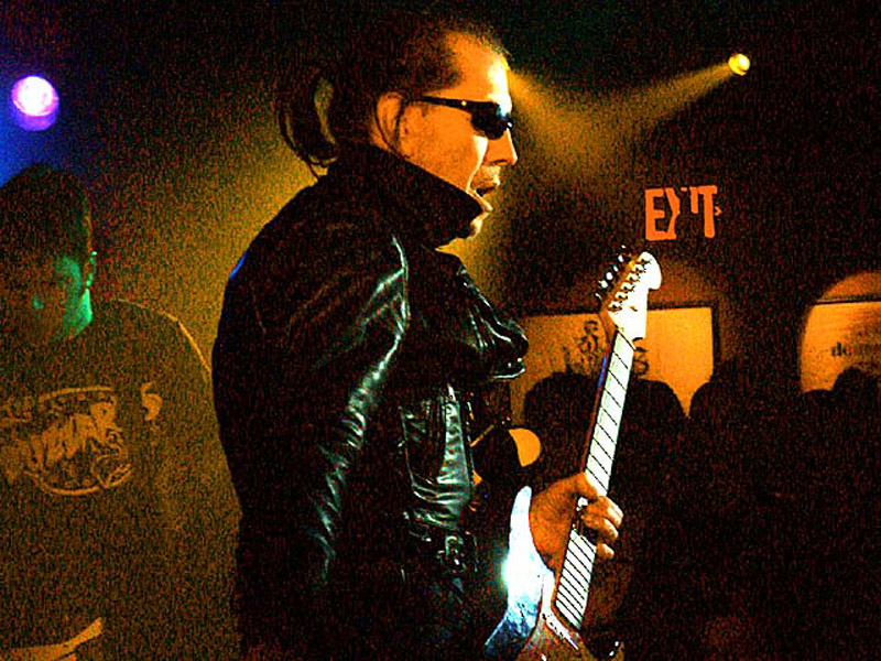 Guitarist Link Wray photographed at The Village Underground in NYC on 3-8-03 by Anthony Pepitone